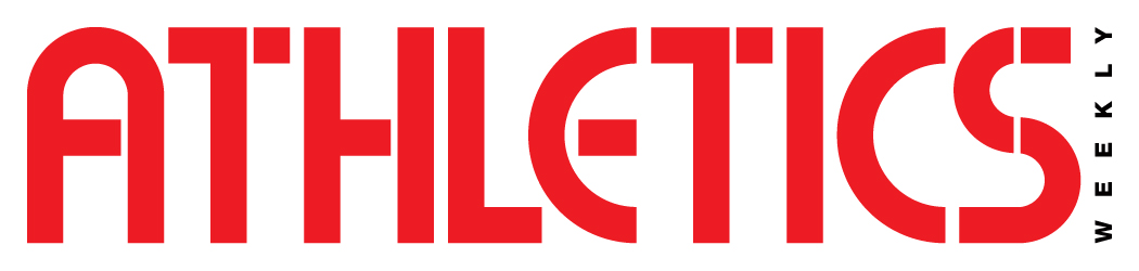 Athletics Weekly logo.